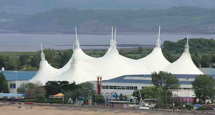 Picture of Skyline Pavilion